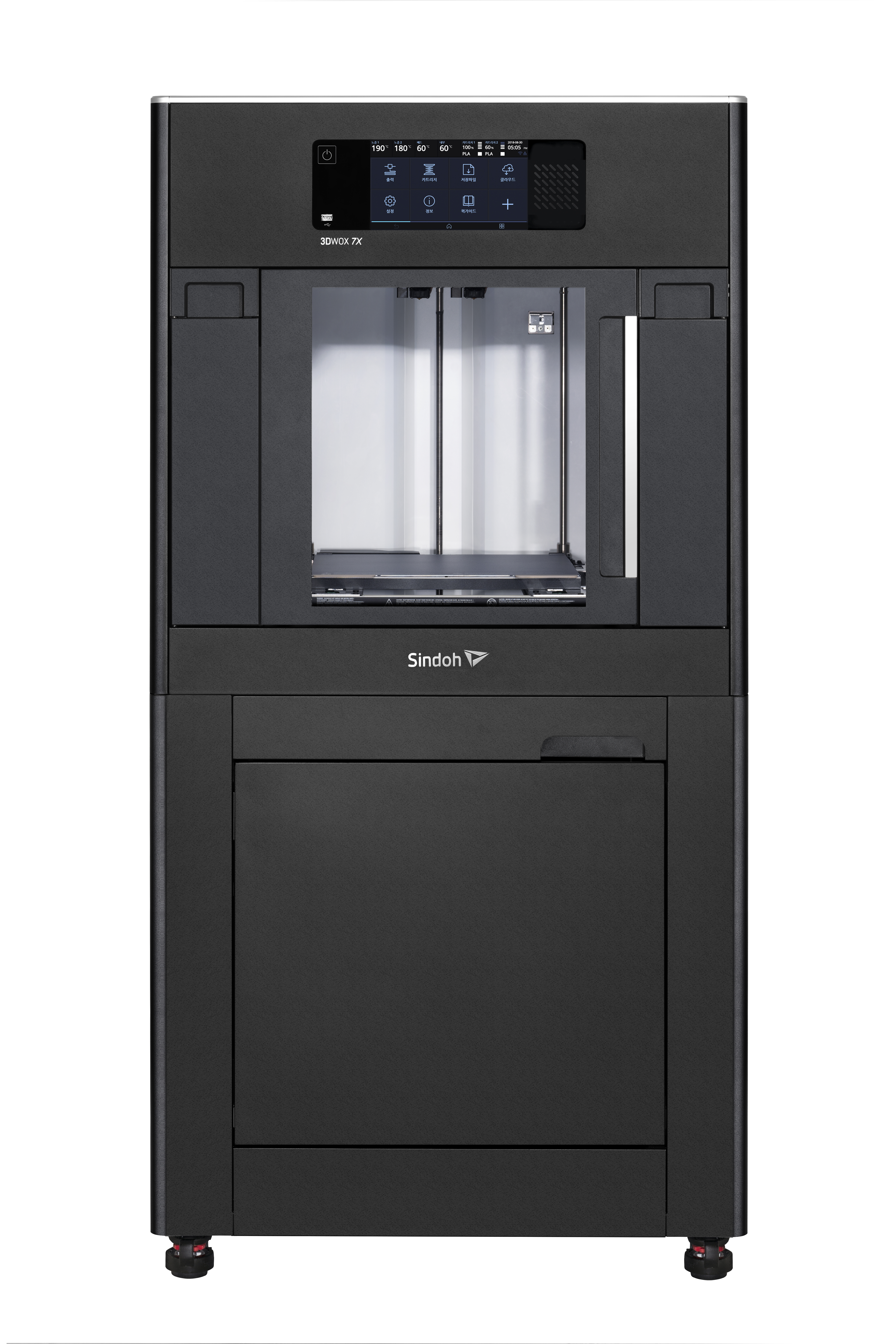 Large output 3D printer